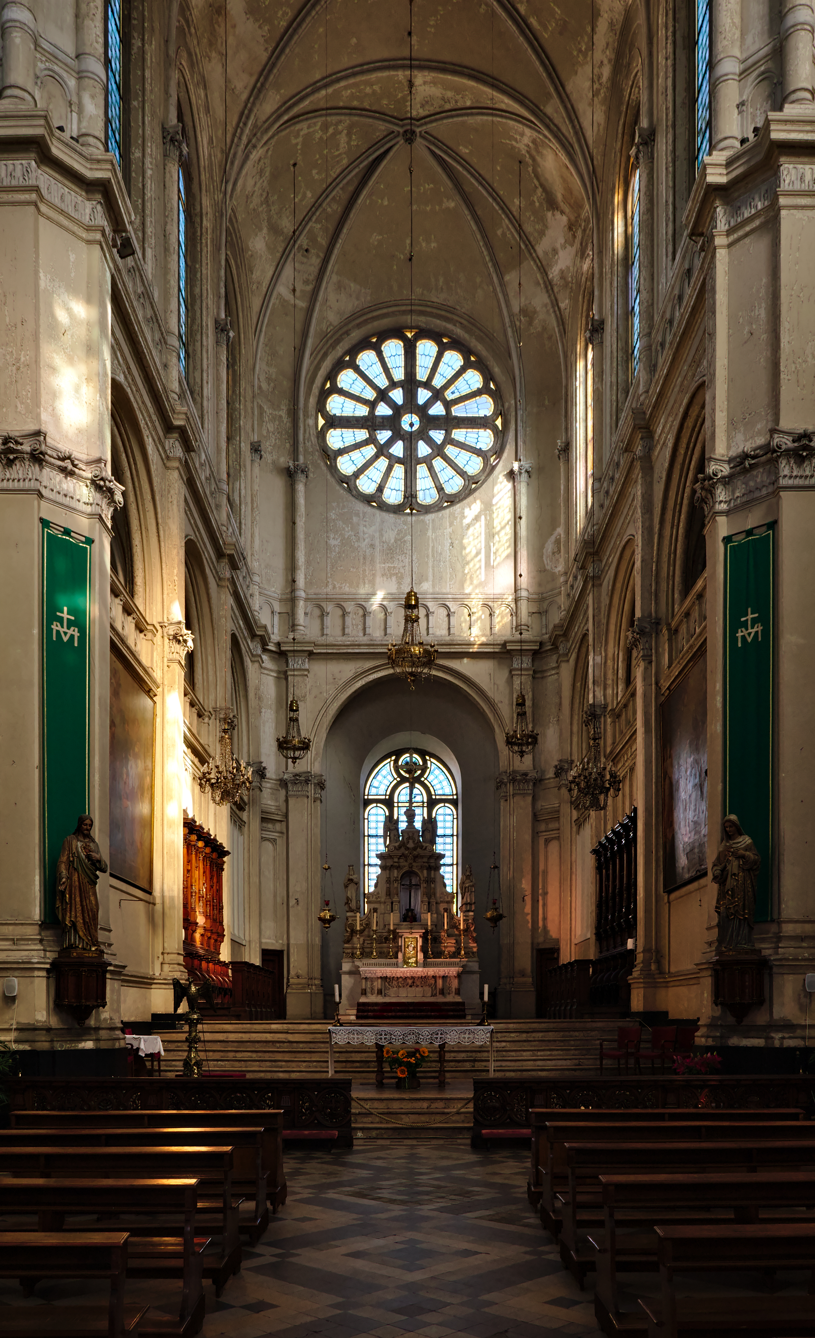 Interior of Église Sainte-Catherine, Brussels This photo of immovable heritage has been taken in the Brussels Capital Region